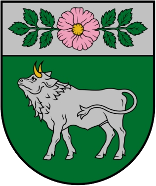 Coat of arms of Vārkava Municipality, Latvia.